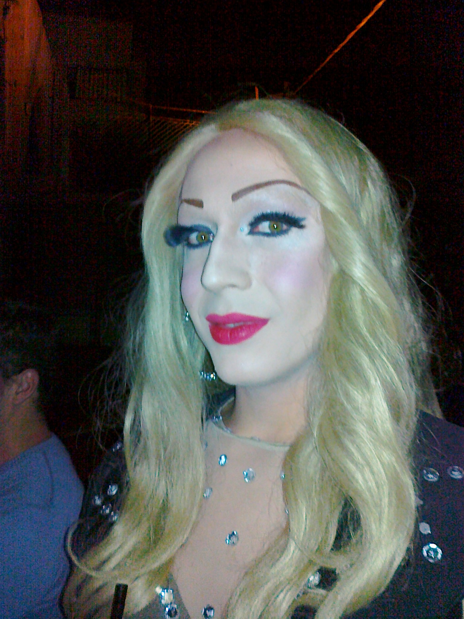 Talula Bonet, Tel aviv, December 9 2012